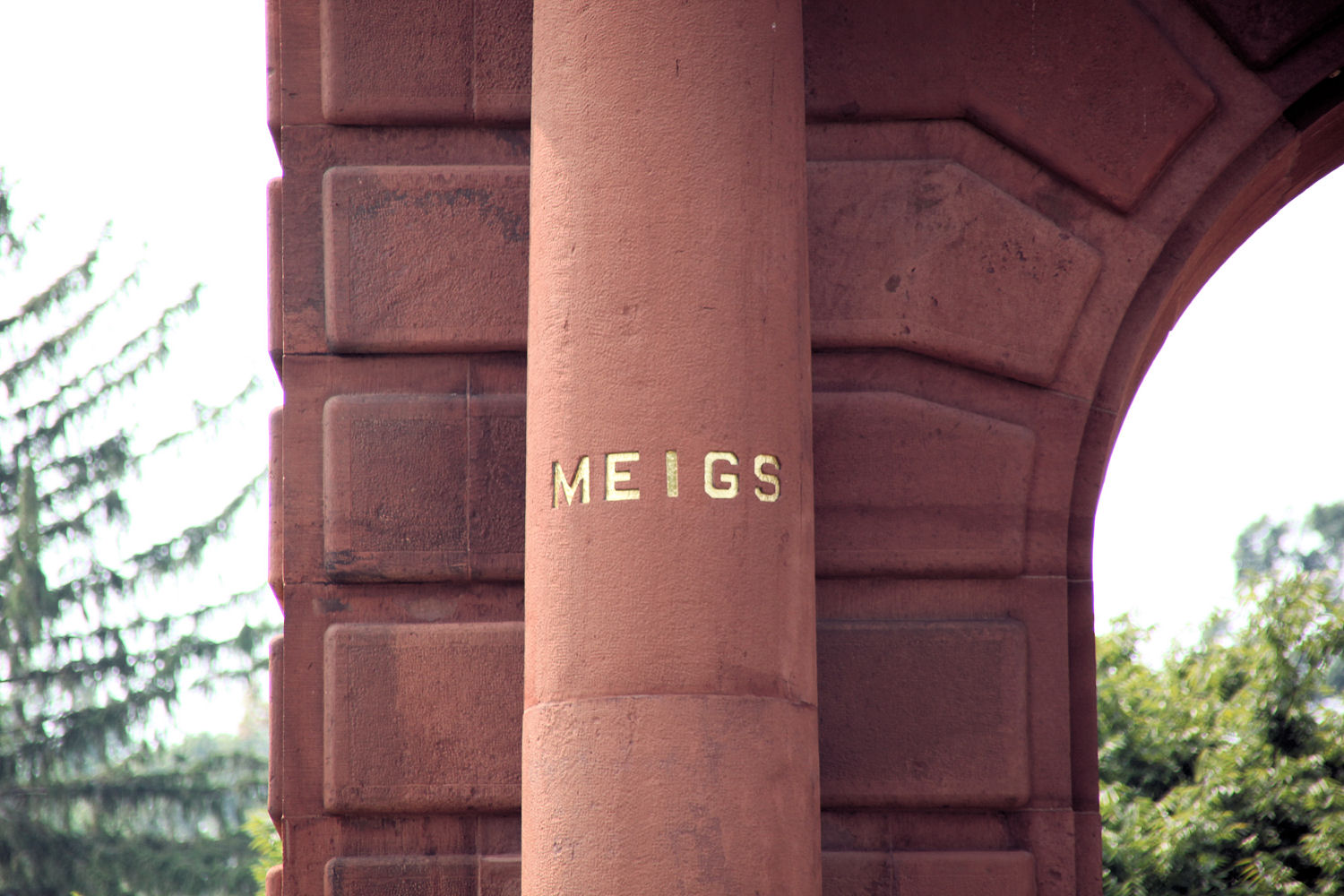 Detail of the left pillar on the west-facing facade of the McClellan Gate at Arlington National Cemetery in Arlington, Virginia, in the United States. U.S. Army Quartermaster General Montgomery C. Meigs had authority over Arlington National Cemetery after the American Civil War. At that time, the eastern boundary of the cemetery lay where Eisenhower Drive is located today. In 1871, Meigs ordered the a main ceremonial gate to Arlington be constructed just east of what is now the intersection of McClellan Avenue and Eisenhower Drive. Built of red sandstone and red brick, Meigs named it the McClellan gate after Major General George B. McClellan, who organized the Army of the Potomac and served from November 1861 to March 1862 as the general-in-chief of the Union Army. Meigs ordered the name "MCCLELLAN" inscribed into the gate's east=facing rectangular pediment in gilt letters. In the left main column of the gate's west face, Meigs had his own name inscribed as a tribute to himself. In 1900, the federal government transferred 400 acres of Arlington National Cemetery which lay between McClellan Gate and the Potomac River to the U.S. Department of Agriculture, which used it as an experimental farm. In 1932, Memorial Drive and the Hemicycle (now the Women in Military Service to America Memorial) were built as a new ceremonial entrance to the cemetery. The 400 acres were returned to Arlington National Cemetery just before World War II, which required the abandonment of the McClellan Gate as Arlington's main gate.